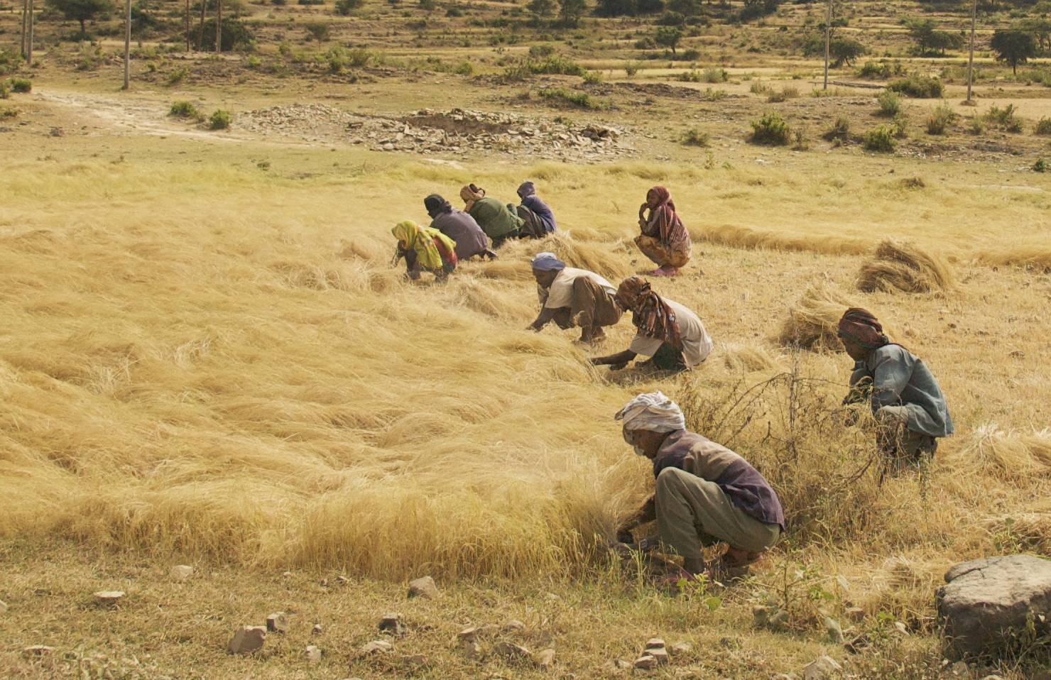 Men and women harvest the Ethiopian staple grain teff in a roadside field between Axum and Adwa in Northern Ethiopia. According to Wikipedia: Teff or taf (Eragrostis tef, Amharic ṭēff, Tigrinya ṭaff) is an annual grass, a species of lovegrass native to the northern Ethiopian Highlands of northeastern Africa. It has an attractive nutrition profile, being high in dietary fiber and iron and providing protein and calcium. It has a sour taste. It is similar to millet and quinoa in cooking, but the seed is much smaller. Teff is an important food grain in Ethiopia and Eritrea, where it is used to make injera . . . (It is now raised in the USA, in Idaho in particular.) Because of its small seeds (less than 1 mm diameter), one [person] can hold enough to sow a large area in one hand. This property makes teff particularly suited to a seminomadic lifestyle. The word "tef" is connected by folk etymology to the EthioSemitic root "ṭff", which means "lost" (because of the small size of the grain).